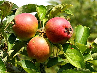 Thana dhar